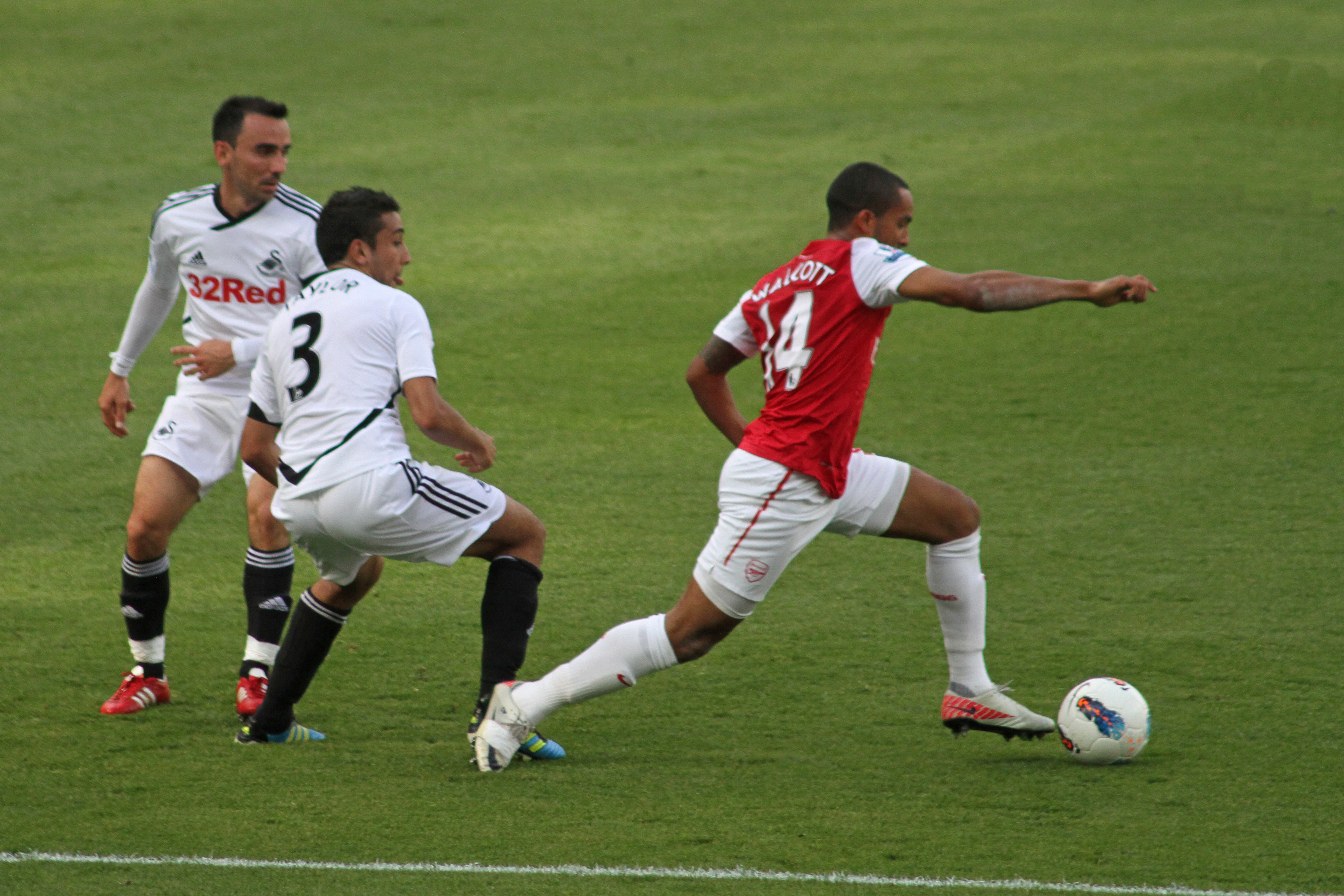 Theo Walcott of Arsenal defended by Leon Britton and Neil Taylor of Swansea.